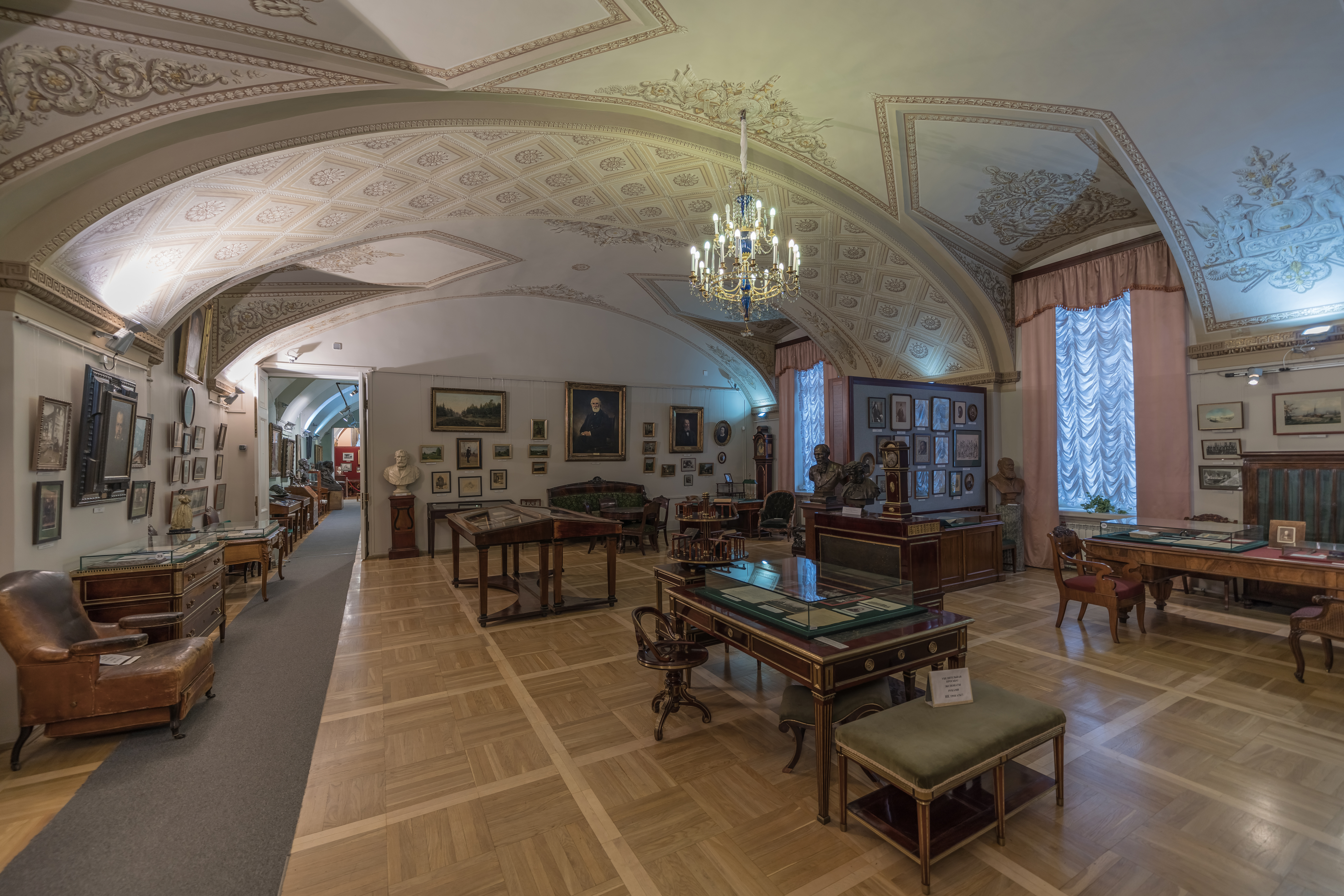 Interior of the Pushkin House on Vasilievsky Island in Saint Petersburg, Russia